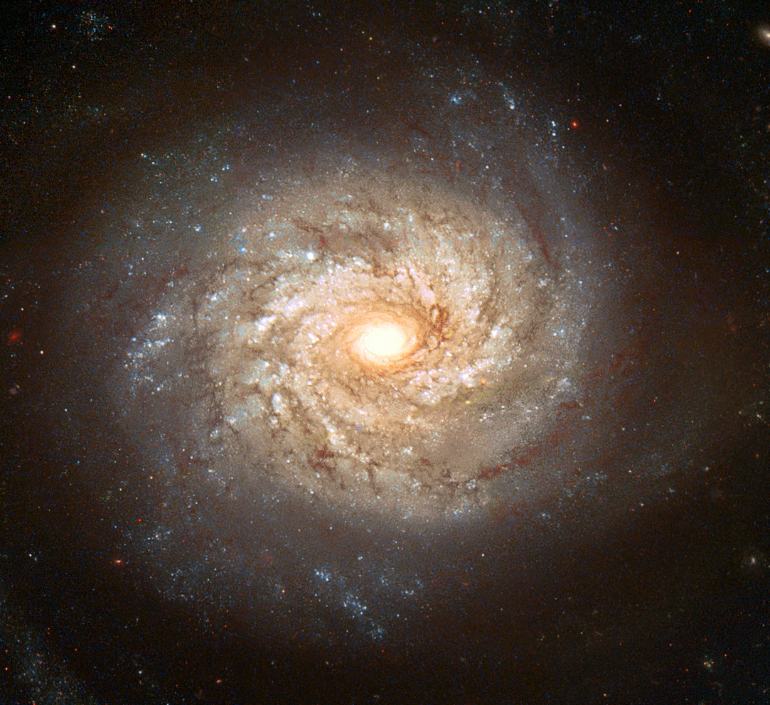 Spiral galaxy NGC 3982 displays numerous spiral arms filled with bright stars, blue star clusters, and dark dust lanes. It spans about 30000 light-years, lies about 60 million light-years from Earth and can be seen with a small telescope in the constellation of Ursa Major.